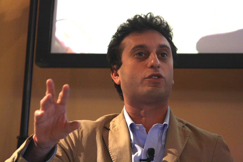 David Parenzo in 2013